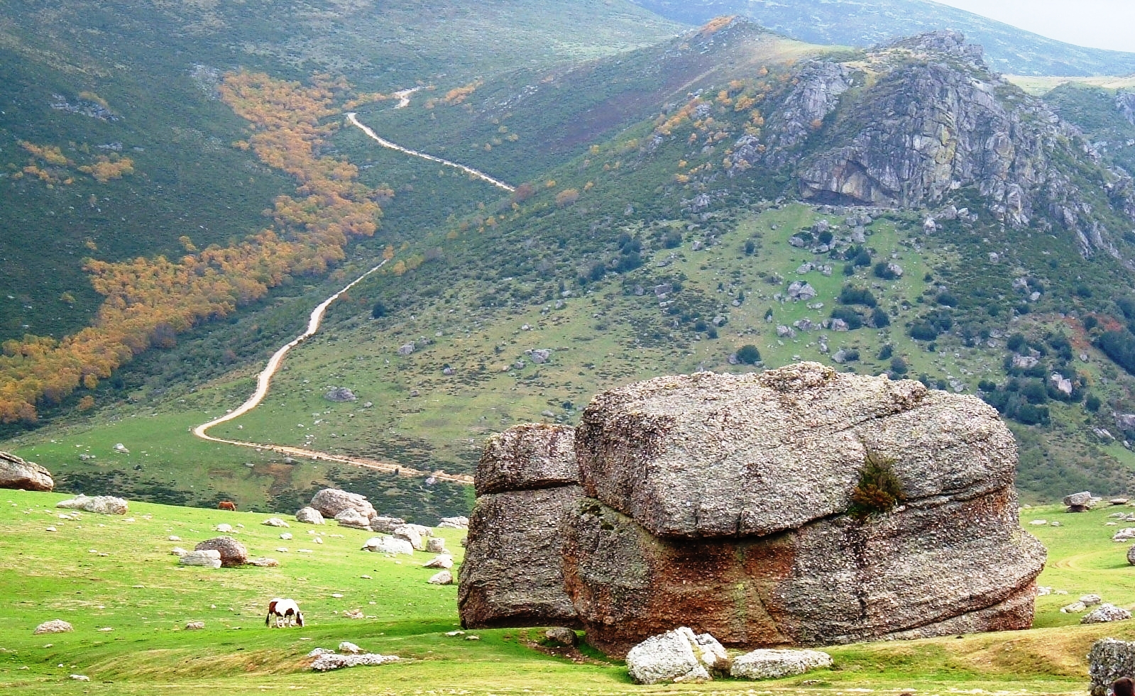 Puerto de Sejos in Cantabria (Spain). Erratics from the last ice age.